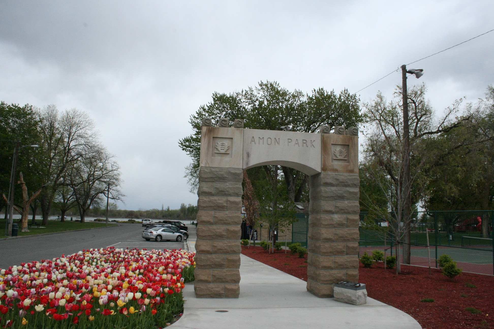 Howard Amon Park, 2011 Richland Washington